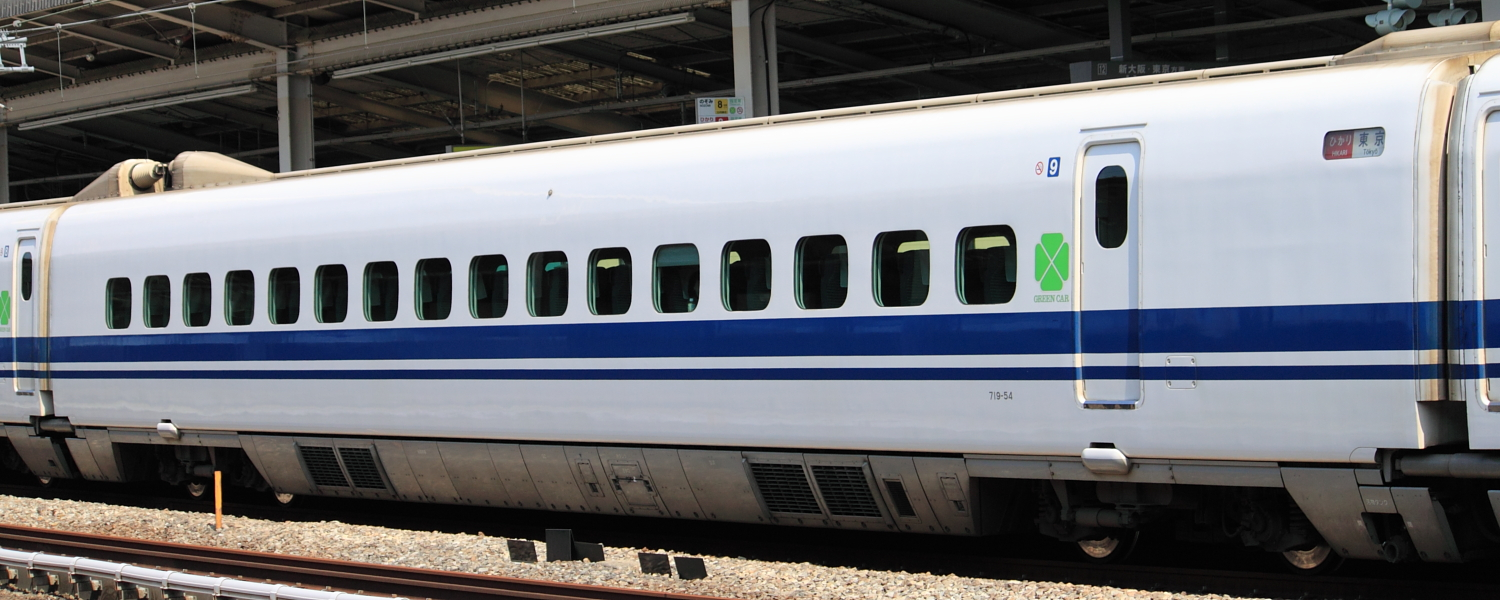 Shinkansen Series 700(719-54) in Nishi-Akashi Station